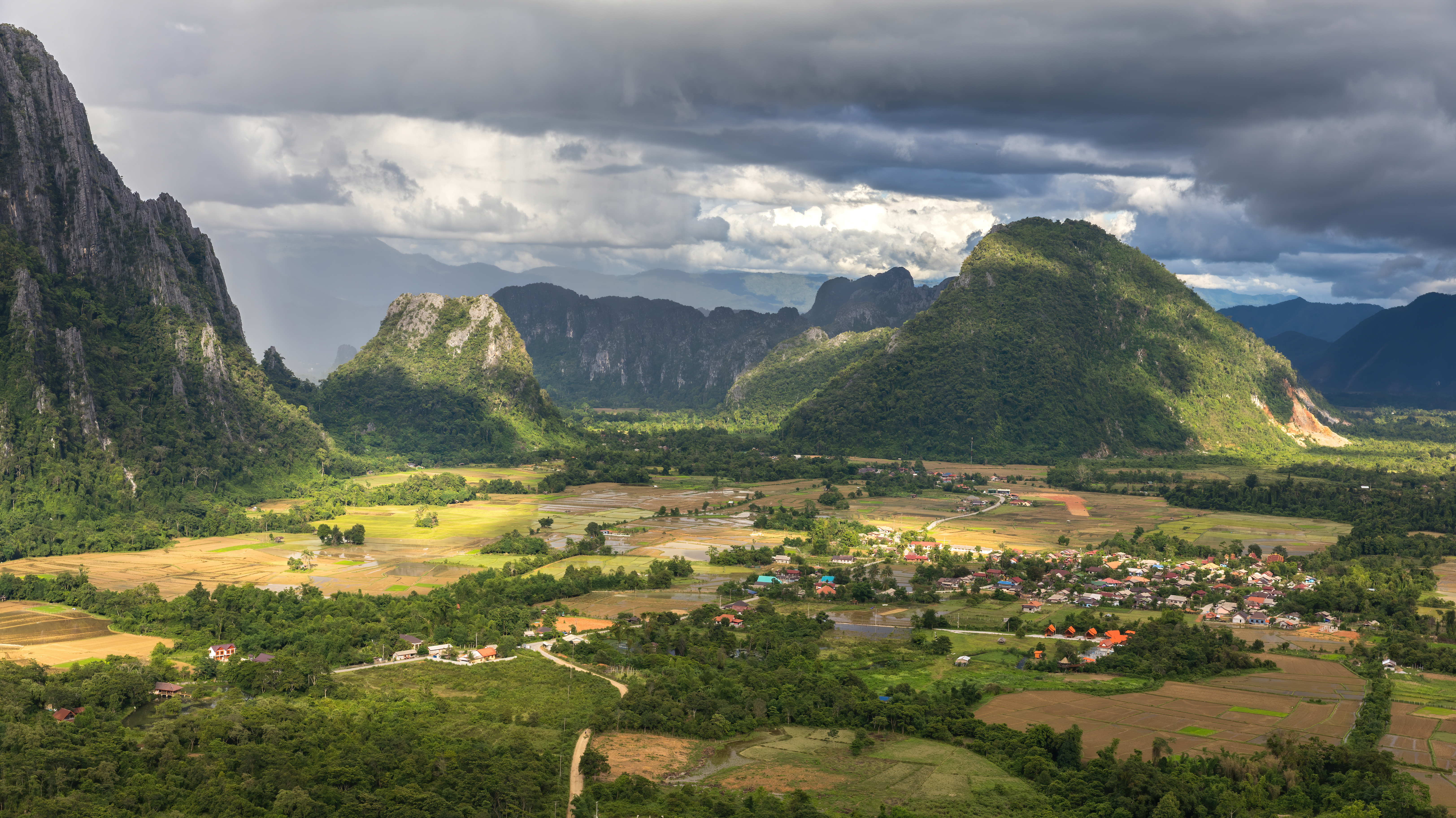 Karst peaks and green paddy fields under a stormy sky, South view from the top of Mount Nam Xay, during the monsoon, in Vang Vieng, Vientiane Province, Laos.